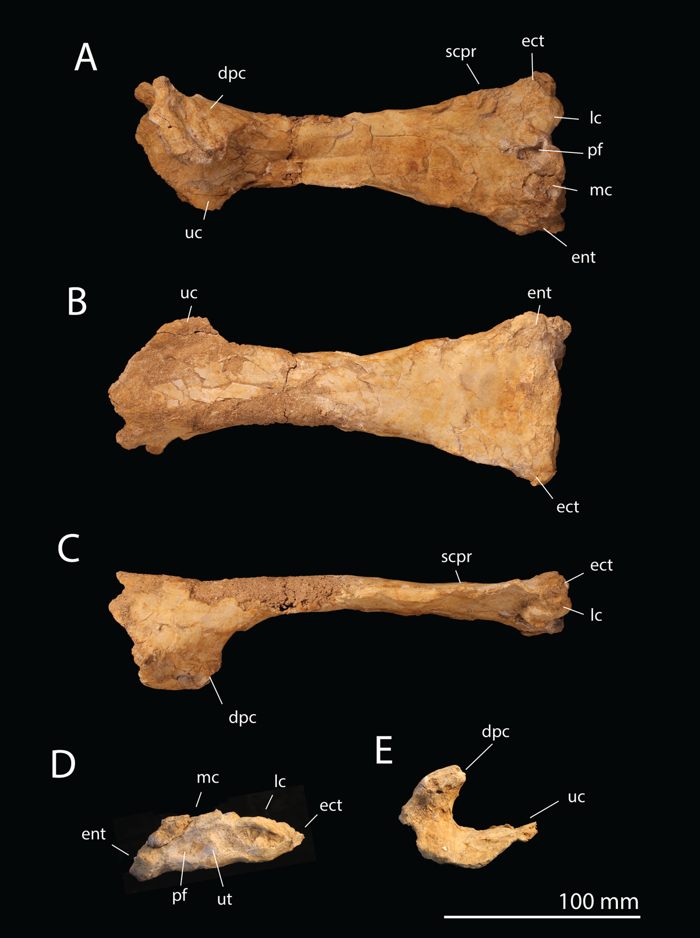 T. regalis FSAC-OB 1, holotype left humerus. In (A), ventral view, (B) dorsal view, (C) anterior view, (D) distal view, and (E) proximal view. Abbreviations: dpc, deltopectoral crest; ect, ectepicondyle; ent, entepicondyle; lc, lateral condyle; mc, medial condyle; pf, pneumatic fossa/foramen; scpr, supracondylar process; uc, ulnar crest; ut, ulnar tubercle.